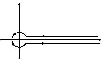 This is a contour that remains arbitrarily close to the real axis; it is used in mathematics to integrate in the complex plane. It is a special kind of contour integral that is denoted the Hankel contour.